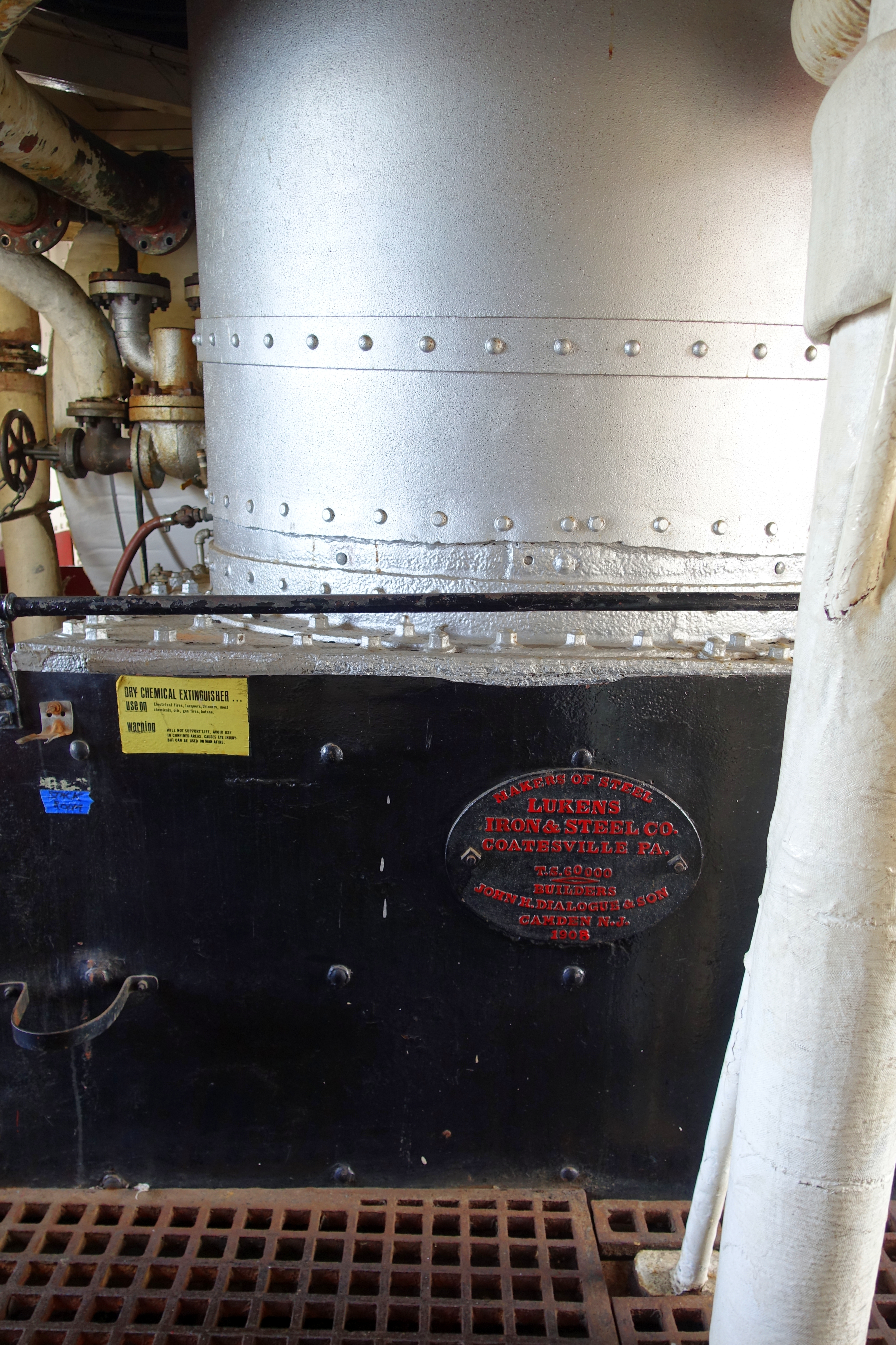 Hercules (tugboat, 1907) - Hyde Street Pier - San Francisco, California, USA.